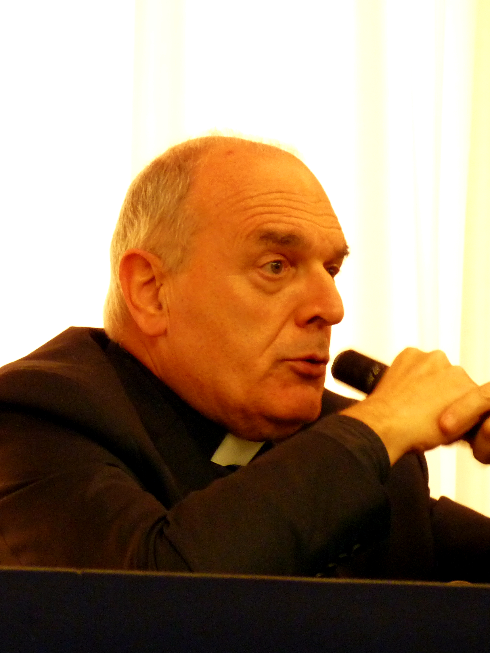 Massimo Camisasca, italian priest and writer, Superior General of Fraternity of St. Charles Borromeo